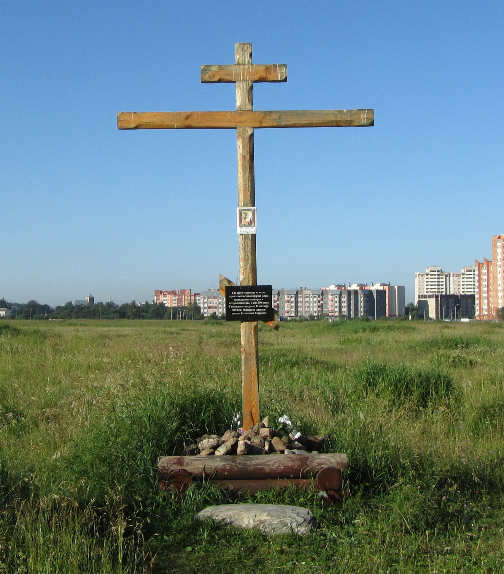 A cross on a runway of Gatchina, Russia